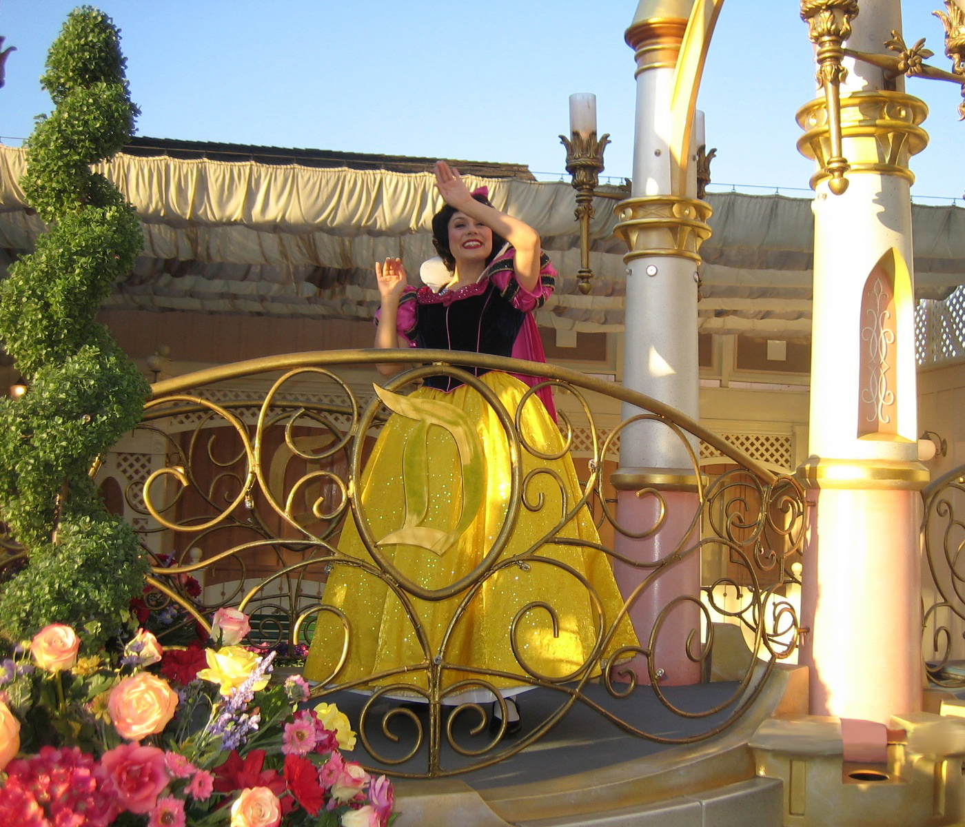 Snow White in Disneyland street parade (Anaheim, California, USA)